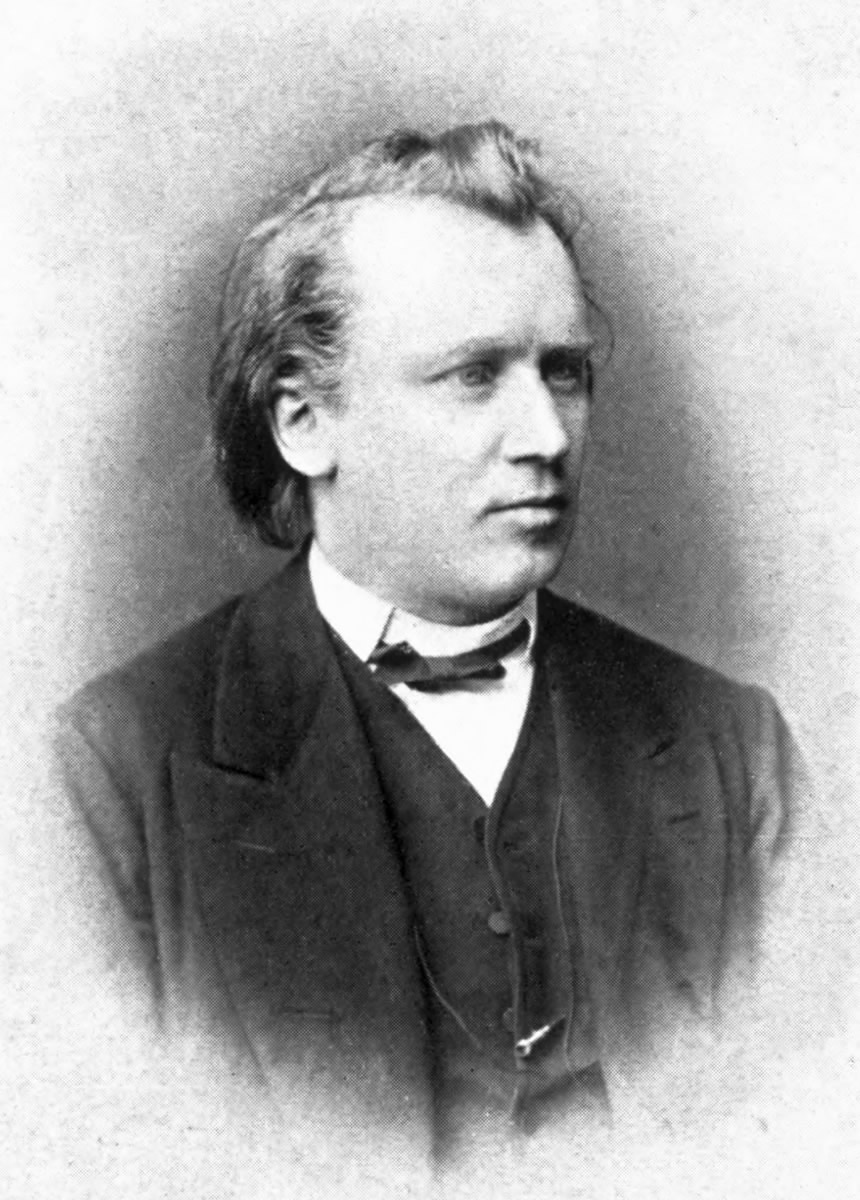 Johannes Brahms, photographed c. 1872 by unknown photographer.